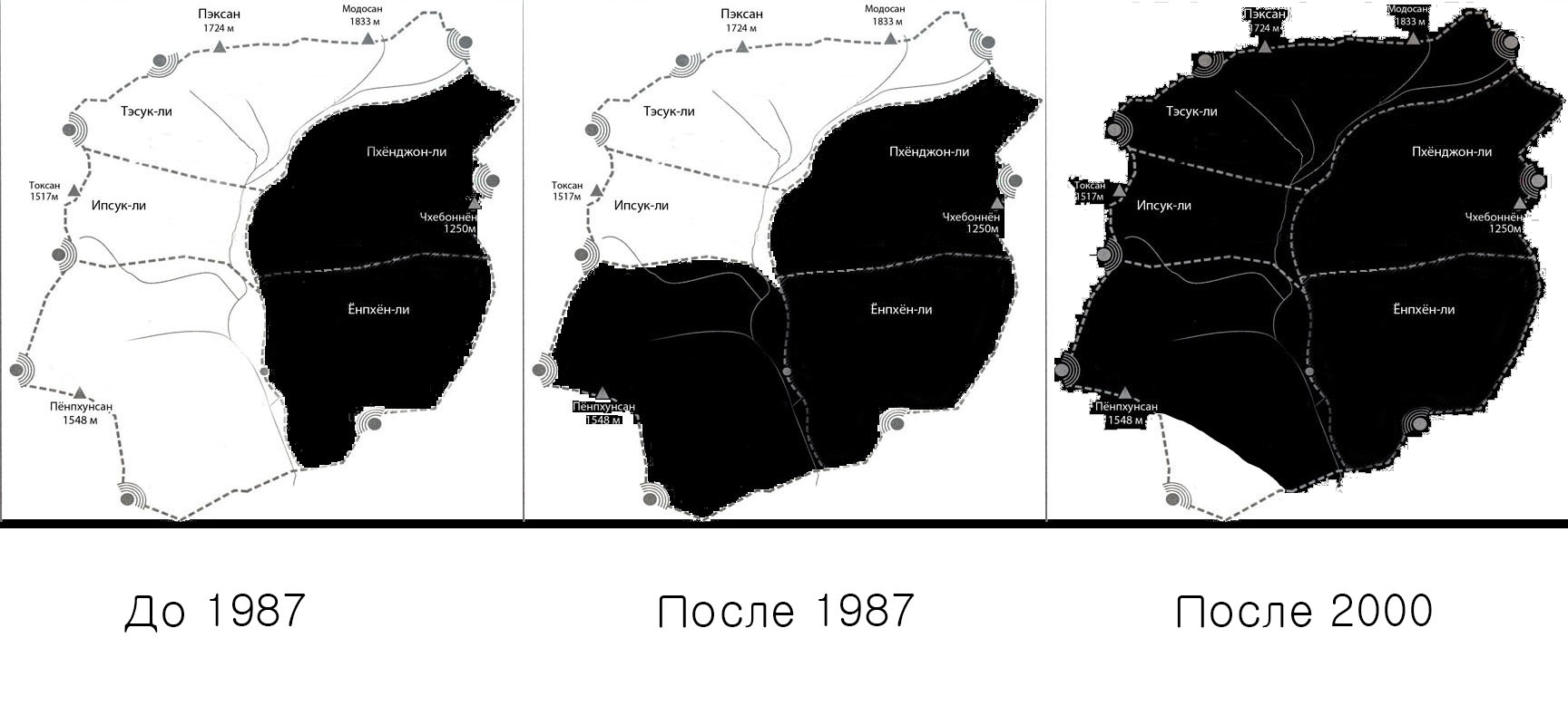 Administrative divisions of Yodok concentration camp. Based on the image published in Chosun Ilbo